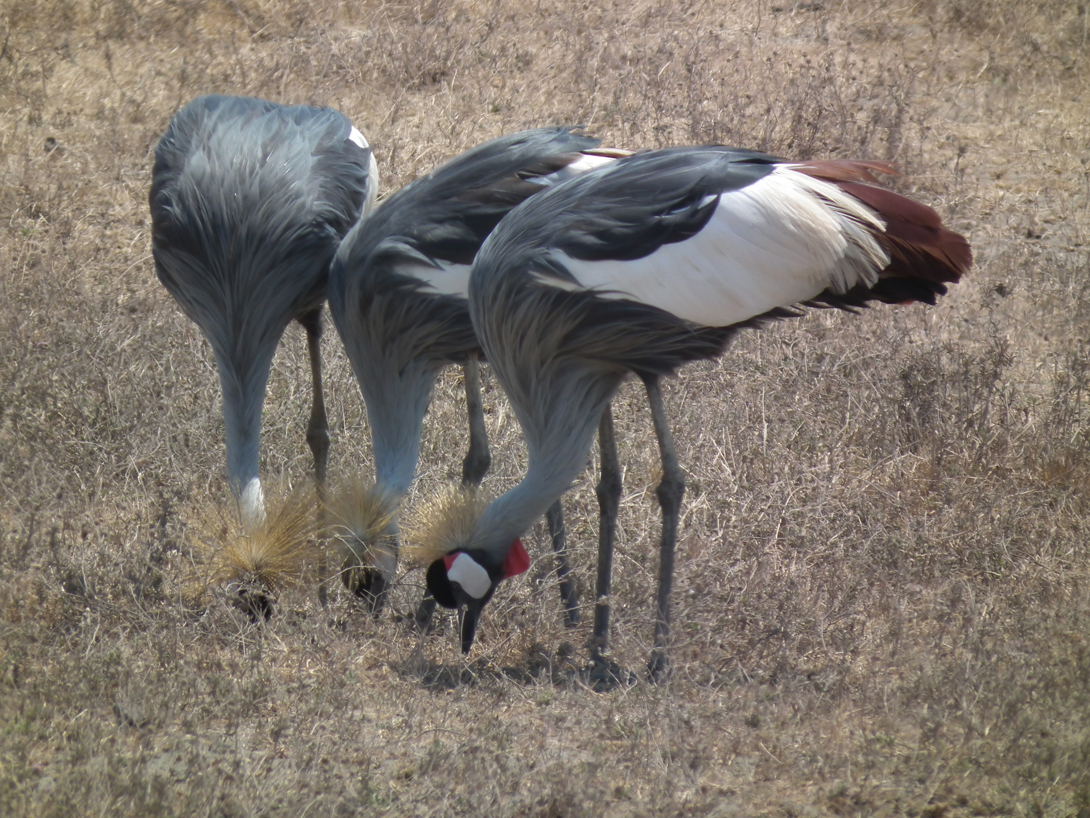 Grey Crowned Crane Balearica regulorum, picture taken, Northern Tanzania